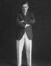 Public domain Image of actor Jack Richardson published in the USA before 1923 fair use with article.